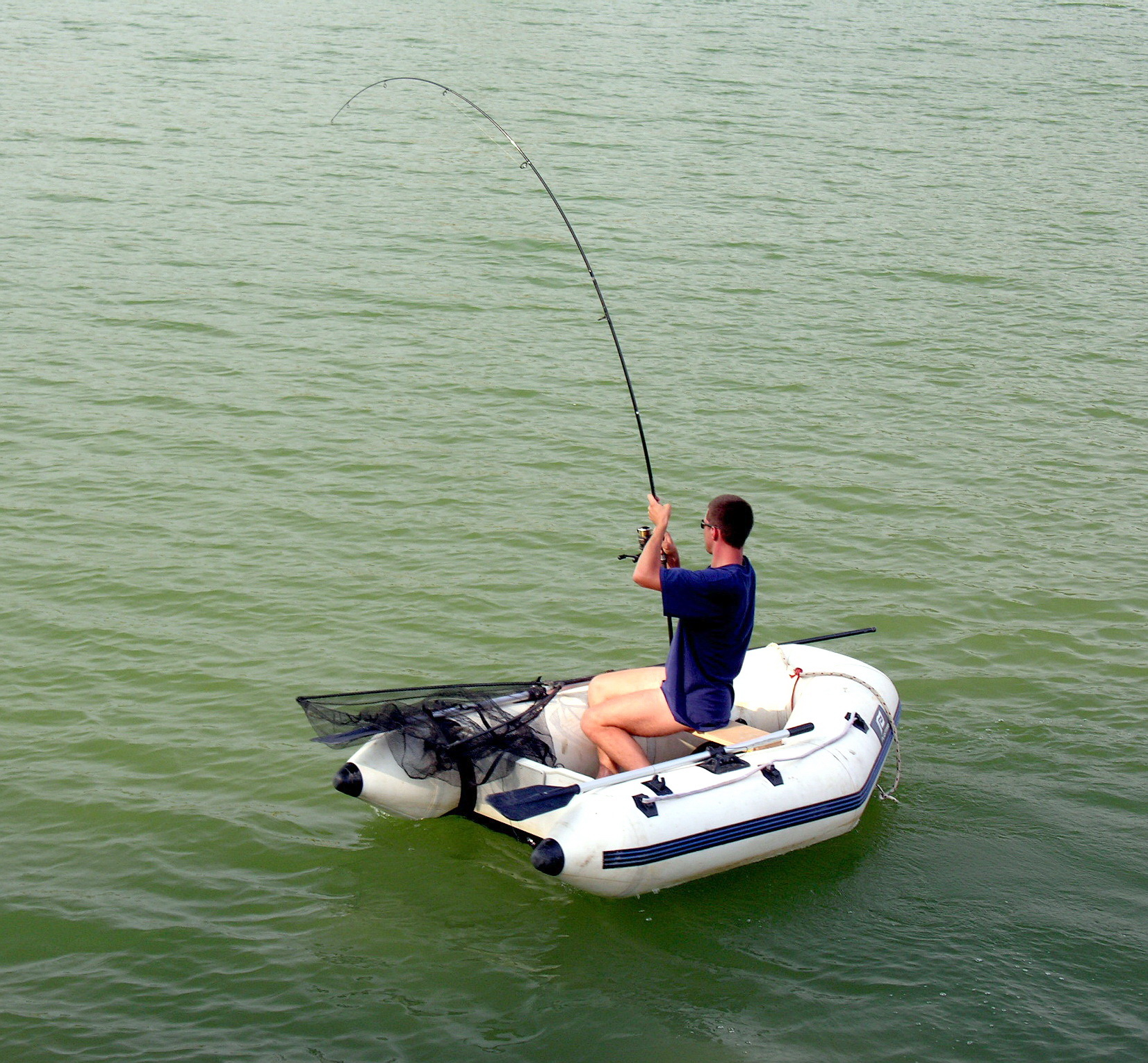 Saint-Cassien's lake : fisherman